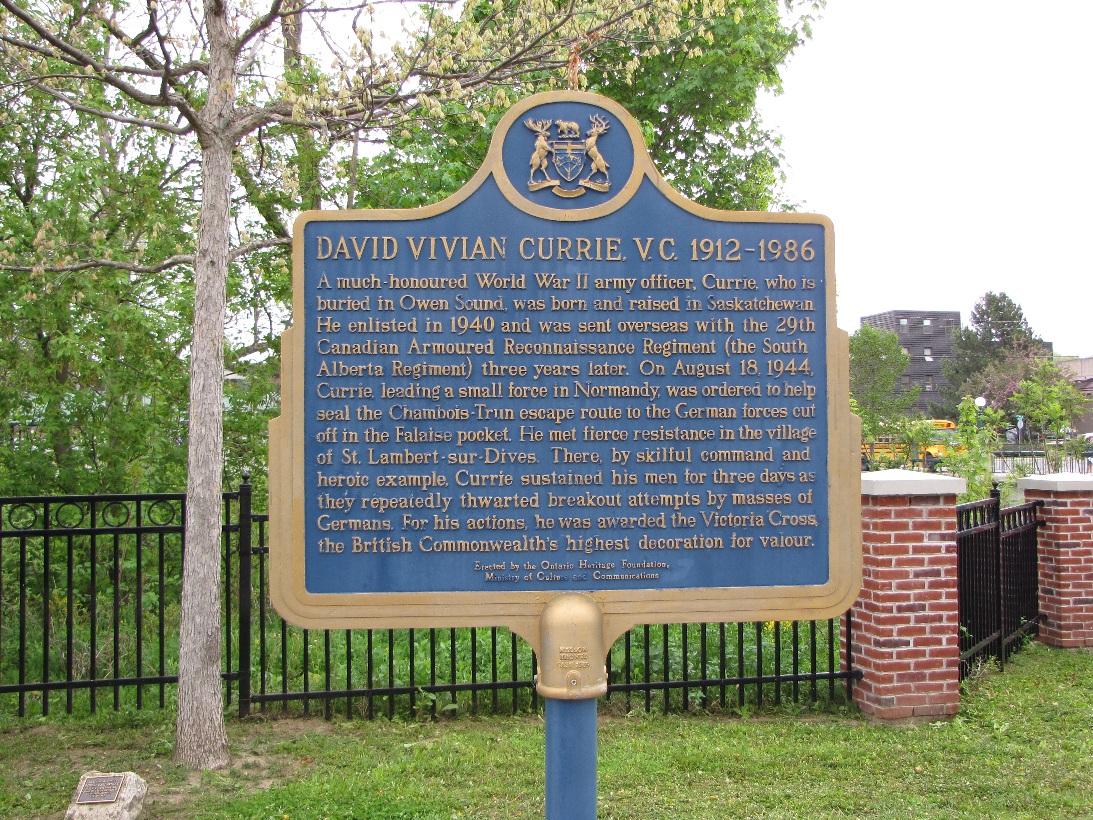 Commemorative plaque honoring David Currie, downtown Owen Sound.